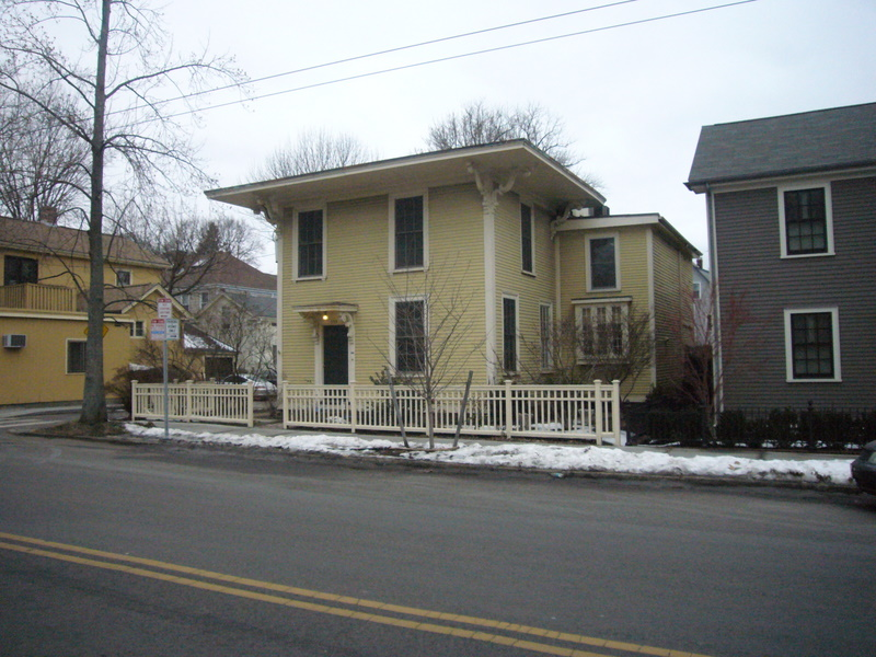 Building at 259 Mount Auburn Street in Cambridge, Massachusetts in 2010. The building is believed to be a former train station, likely from the Watertown Branch Railroad.